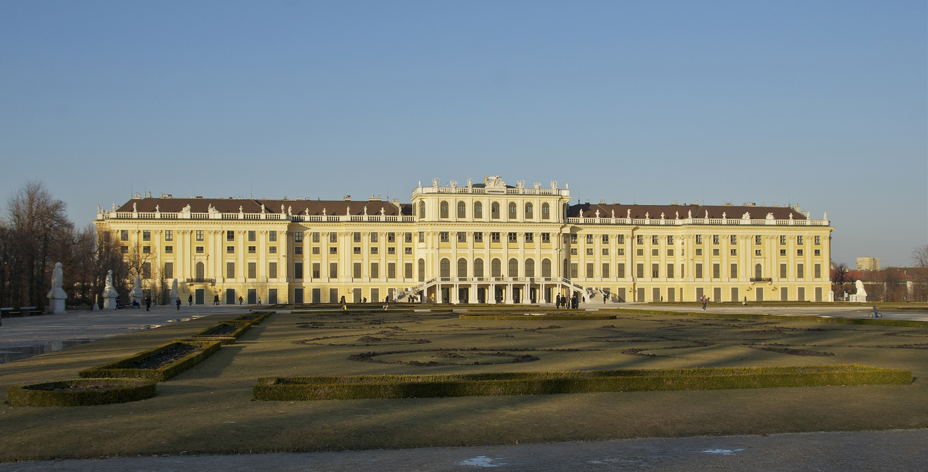 Castle of Schönbrunn, gardens façade, evening light in winter. Vienna, Austria.